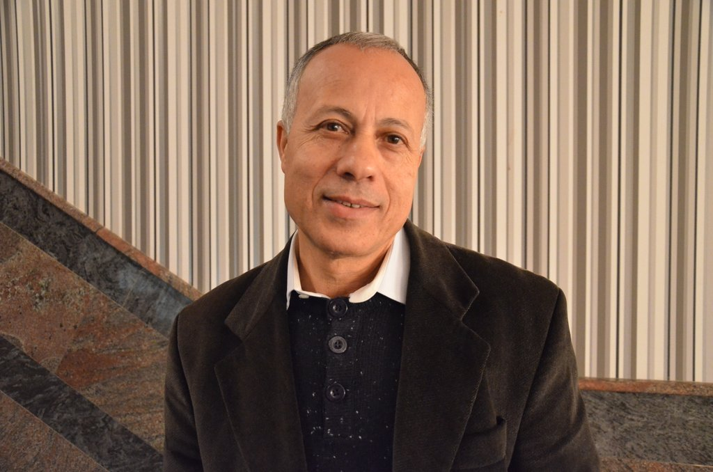 Abdullah Abu Ma'aruf.